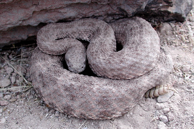 Crotalus mitchelli from Baja California.